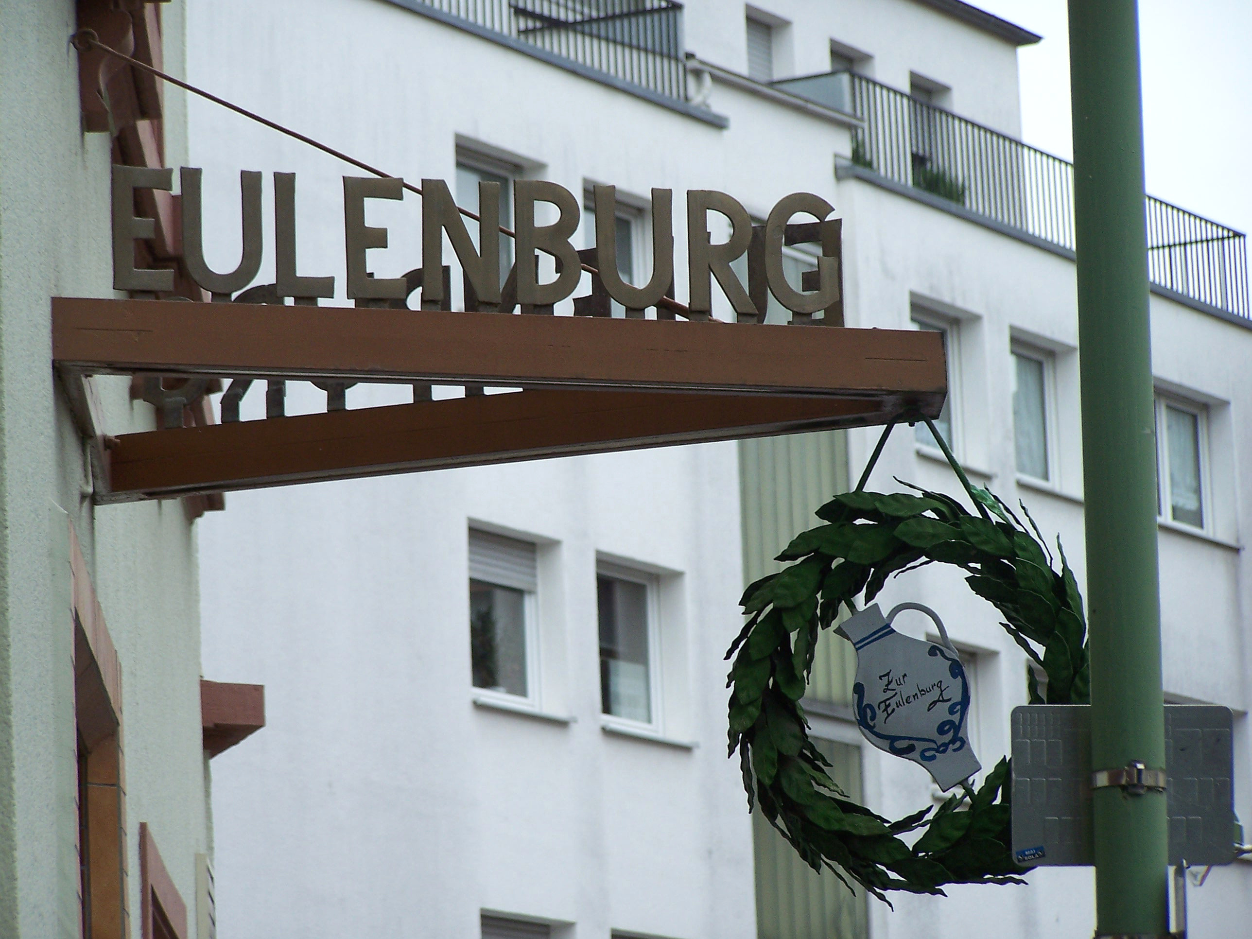 Eulenburg, Eulengasse 46 in Frankfurt am Main-Bornheim in June 2012